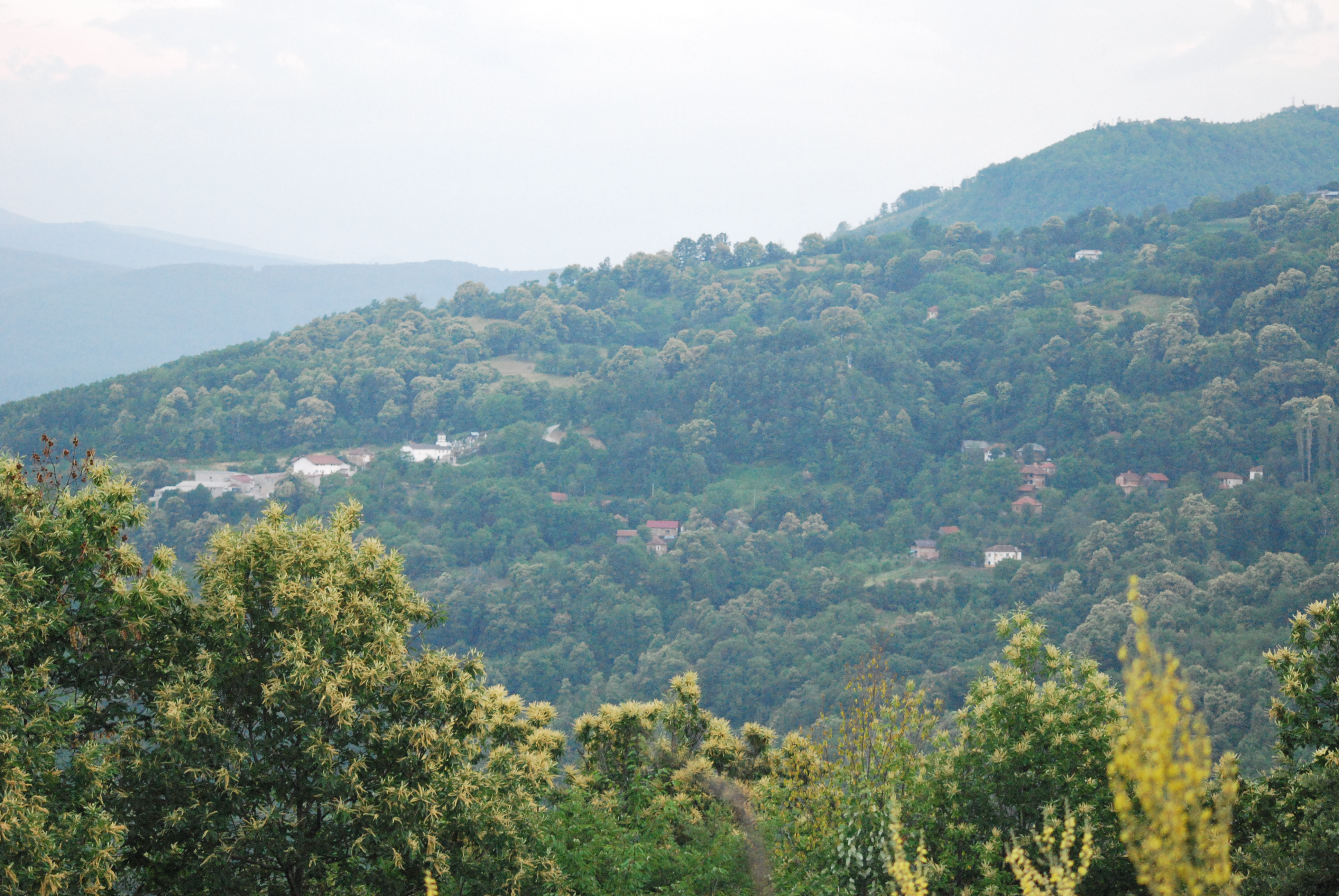 View to Pečkovo near Gostivar, Macedonia